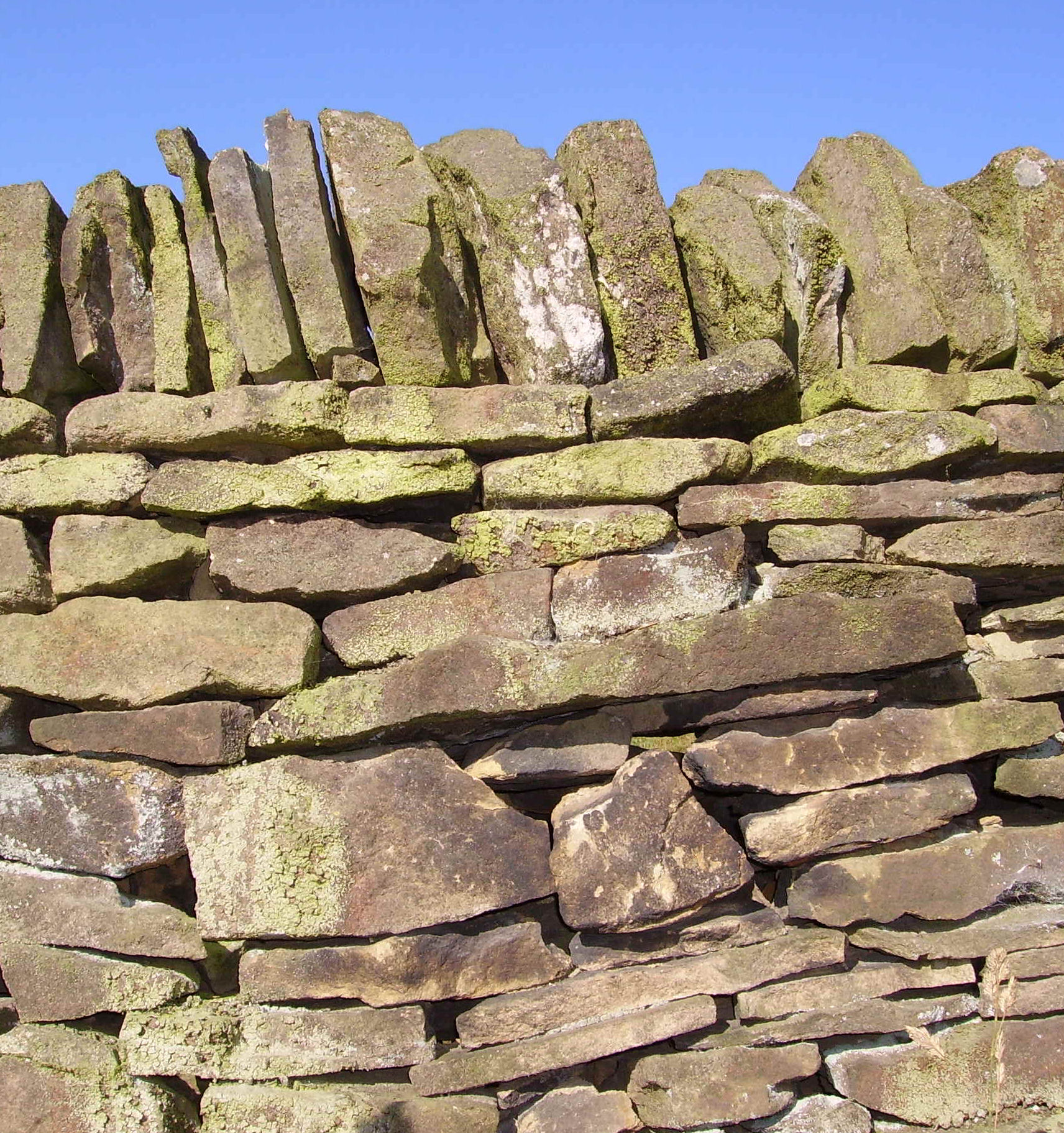 Dry stone wall in North Yorkshire, United Kingdom